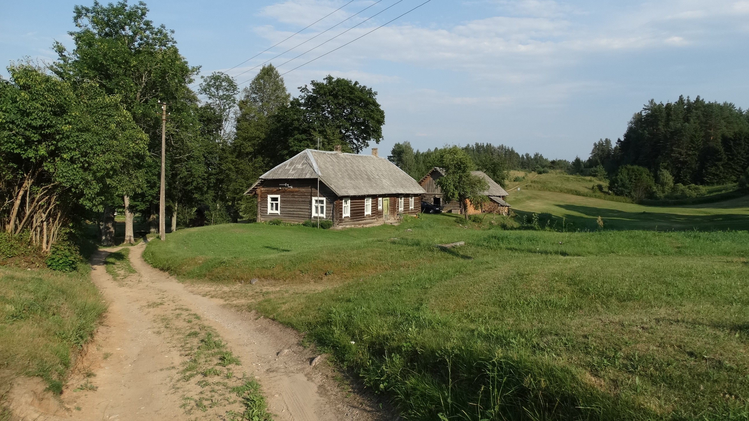 Varniškės II, Utena district, Lithuania